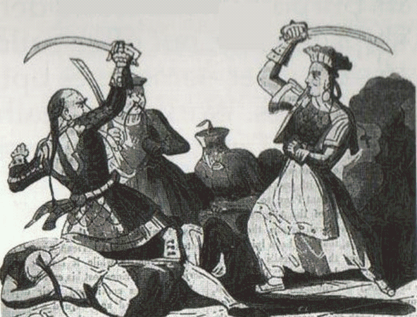 Ching Shih (the widow Ching, pirate)